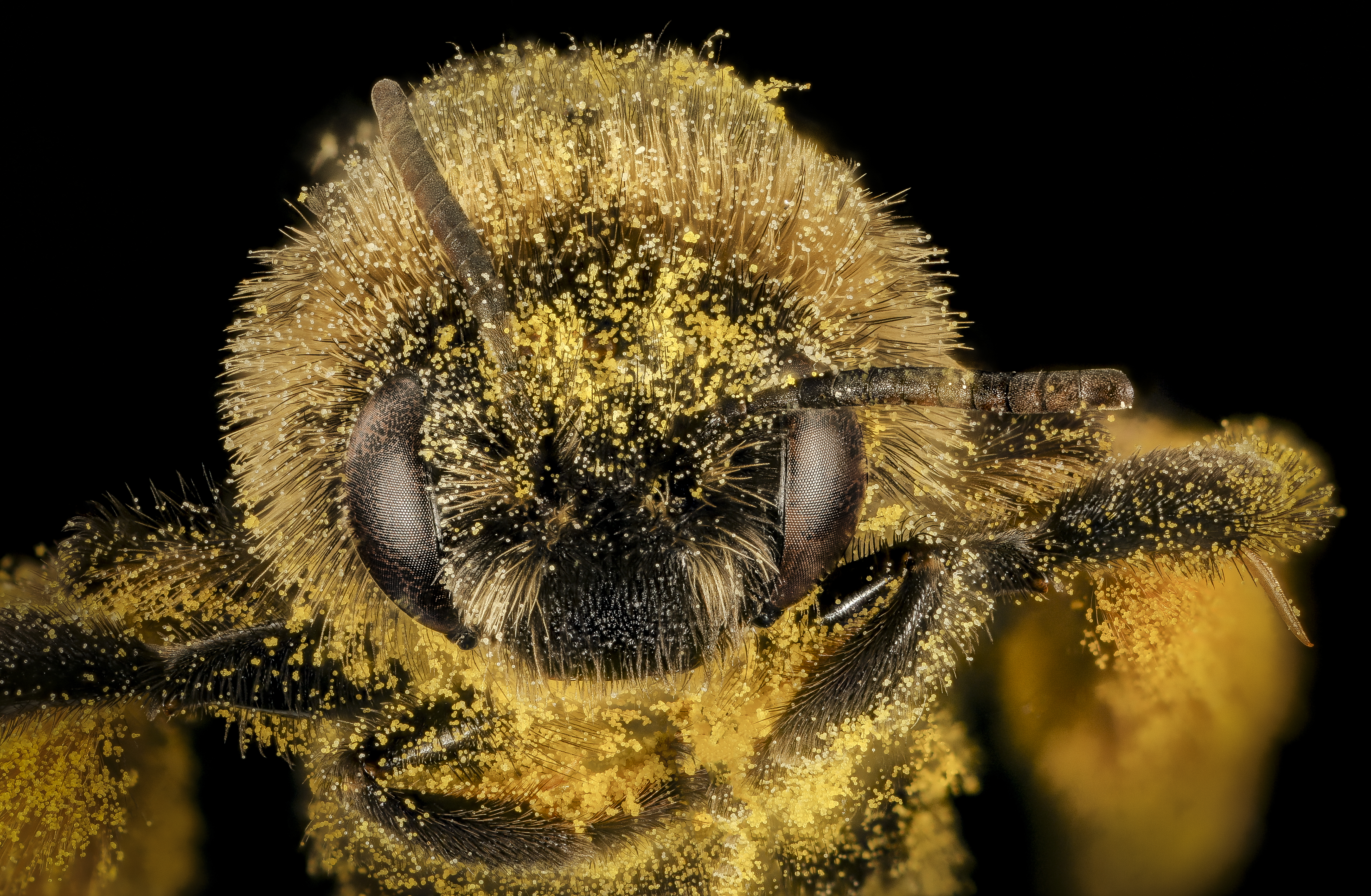 Pollen, pollen, pollen, pollen, on a Melissodes desponsa...a species usually associated with Thistles so this may well be thistle pollen. Note that while bees may carry loads of pollen on their legs...pollen usually gathers loosely all over the bee and this is thought to be the pollen that does much of the pollination on plants. Brianne Du Clos collected this girl in Maine during her studies of blueberry fields and their surroundings. Photography by Dejen Mengis. 03:02, 29 February 2016 (UTC)03:02, 29 February 2016 (UTC) 0 03:02, 29 February 2016 (UTC)03:02, 29 February 2016 (UTC) All photographs are public domain, feel free to download and use as you wish. Photography Information: Canon Mark II 5D, Zerene Stacker, Stackshot Sled, 65mm Canon MP-E 1-5X macro lens, Twin Macro Flash in Styrofoam Cooler, F5.0, ISO 100, Shutter Speed 200 Beauty is truth, truth beauty - that is all Ye know on earth and all ye need to know " Ode on a Grecian Urn" John Keats You can also follow us on Instagram account USGSBIML Want some Useful Links to the Techniques We Use? Well now here you go Citizen: Art Photo Book: Bees: An Up-Close Look at Pollinators Around the World Basic USGSBIML set up: USGSBIML Photoshopping Technique: Note that we now have added using the burn tool at 50% opacity set to shadows to clean up the halos that bleed into the black background from "hot" color sections of the picture. PDF of Basic USGSBIML Photography Set Up: ftp://ftpext.usgs.gov/pub/er/md/laurel/Droege/How%20to%20Take%20MacroPhotographs%20of%20Insects%20BIML%20Lab2.pdf Google Hangout Demonstration of Techniques: or Excellent Technical Form on Stacking: Contact information: Sam Droege 301 497 5840